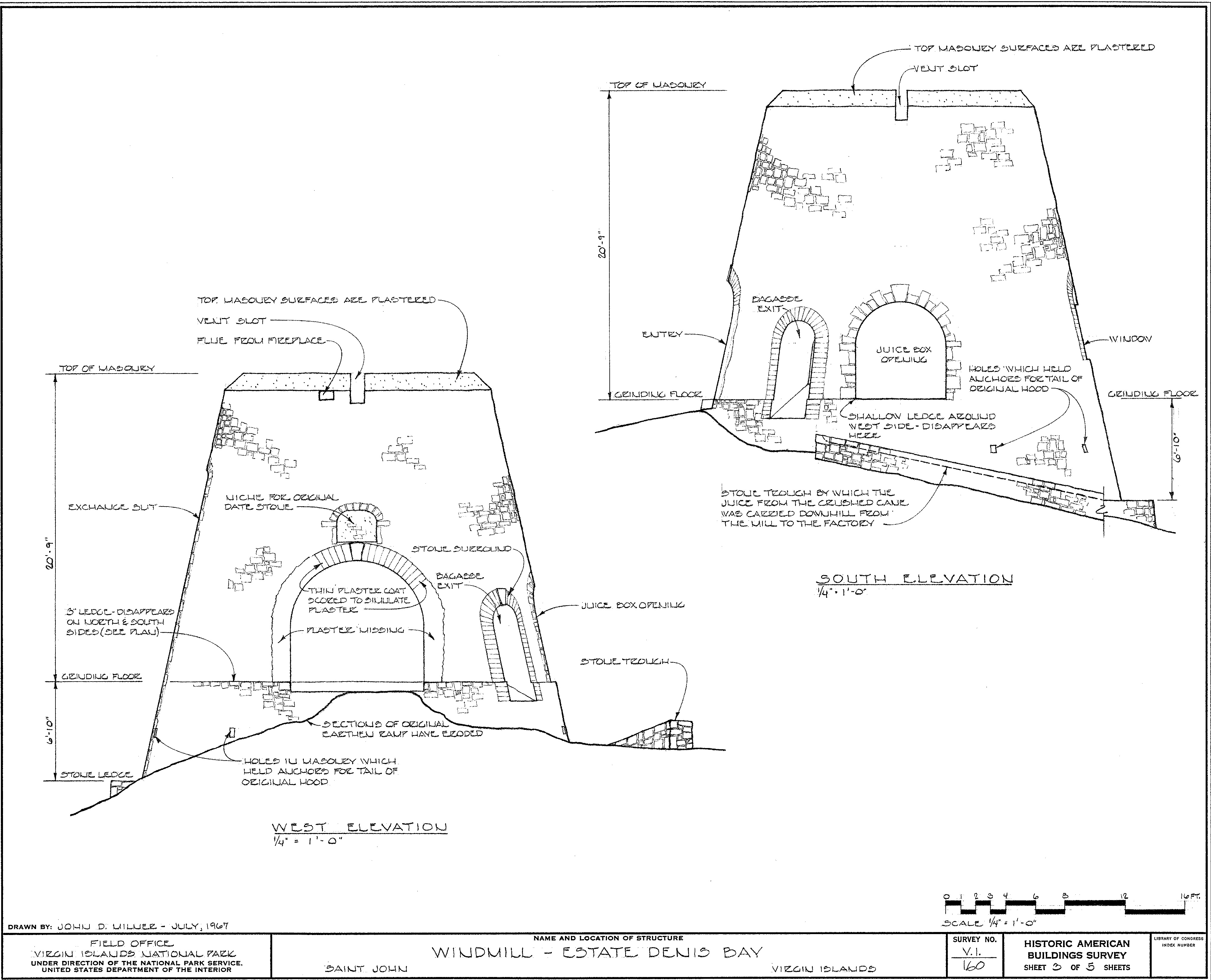 Windmill in Dennis Bay Historic District on the NRHP since July 23, 1981. Located northeast of Cruz Bay off North Shore Road in the Central region of St. John, US Virgin Islands (in the Virgin Islands National Park). Part of the Virgin Islands National Park MRA submission.